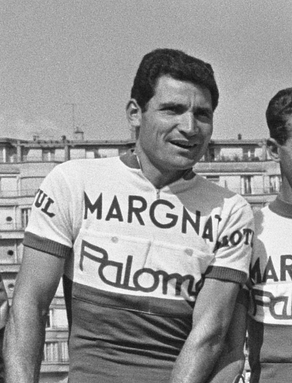 The Margnat-Paloma team at the 1964 Tour de France: Jean Anastasi, Federico Bahamontes, André Darrigade, Jean Graczyk, Esteban Martín, Claude Mattio, Jean Milesi, Joseph Novales, Eddy Pauwels and José Segú.